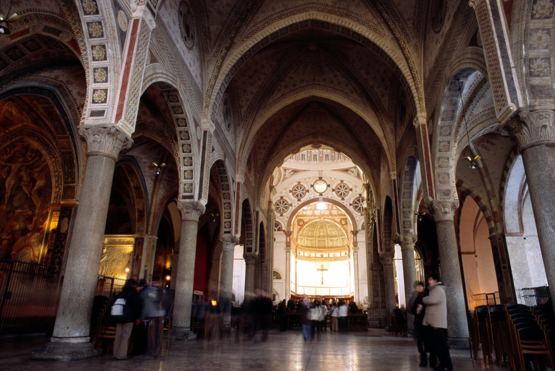 Nave of Santa Maria delle Grazie church, Milan 30.12.2005 Photo by Mikko Virtaperko.